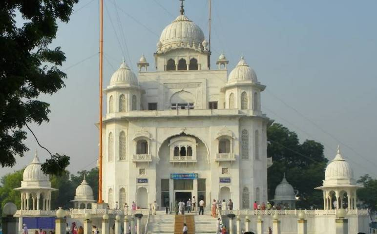 Gurdwara Rakabganj Sahib, Delhi.